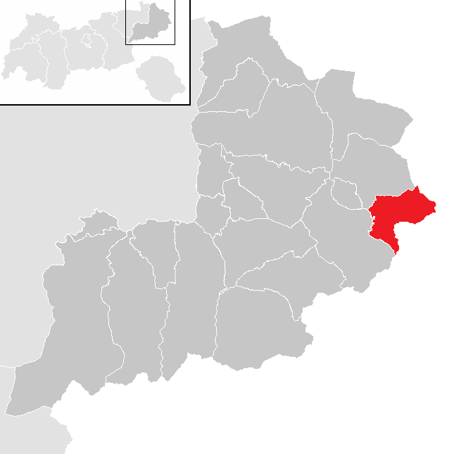 District Kitzbühel